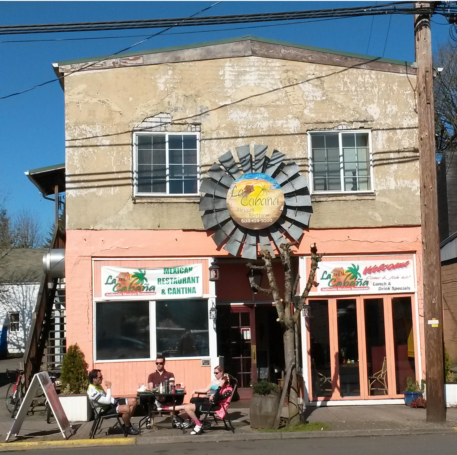 La Cabana Restaurant in downtown Vernonia, Oregon